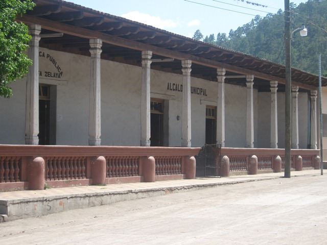 Town Hall